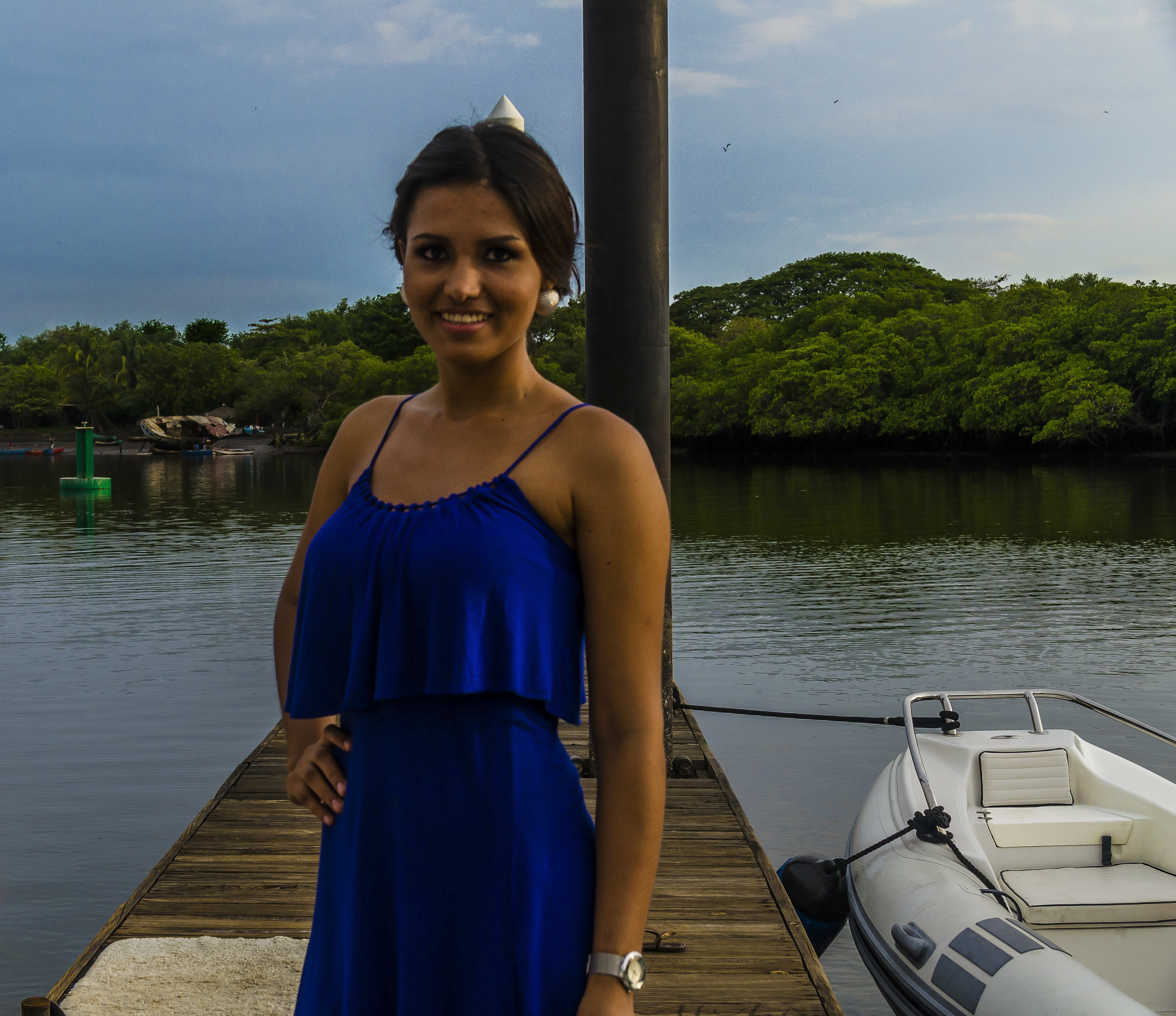 Miss Nicaragua en La Marina Puesta Del Sol 2/6/2013